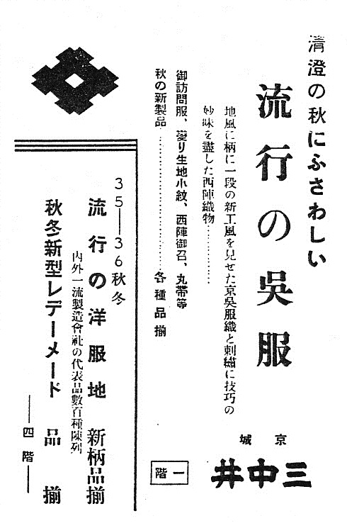 Minakai Department Store advertisement